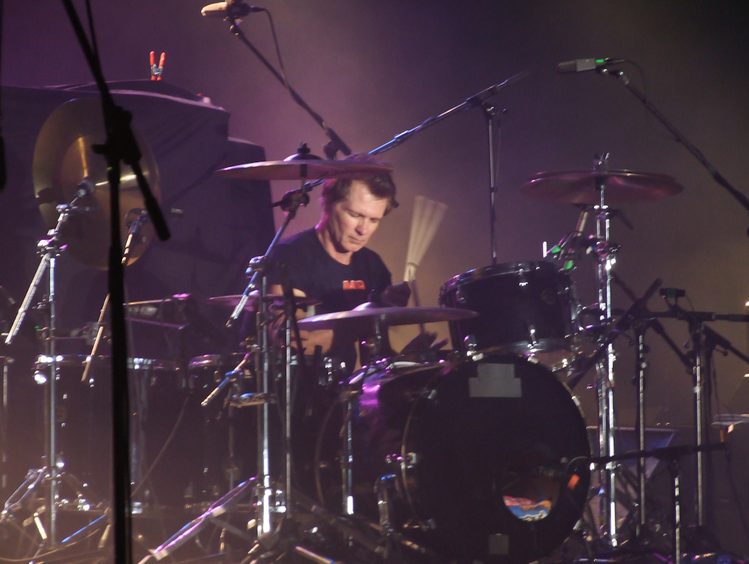 Pat Torpey - the American rock and roll drummer, known as the drummer of the hard rock band Mr. Big. The photo was taken during the Mr.Big' concert at Festivalna Hall, Sofia, Bulgaria.